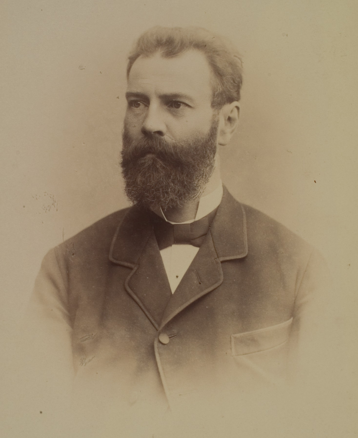 August Georg Carl Ewald, Physiologe, 1883–1921 Professor in Heidelberg, seit 1921 Honorarprofessor